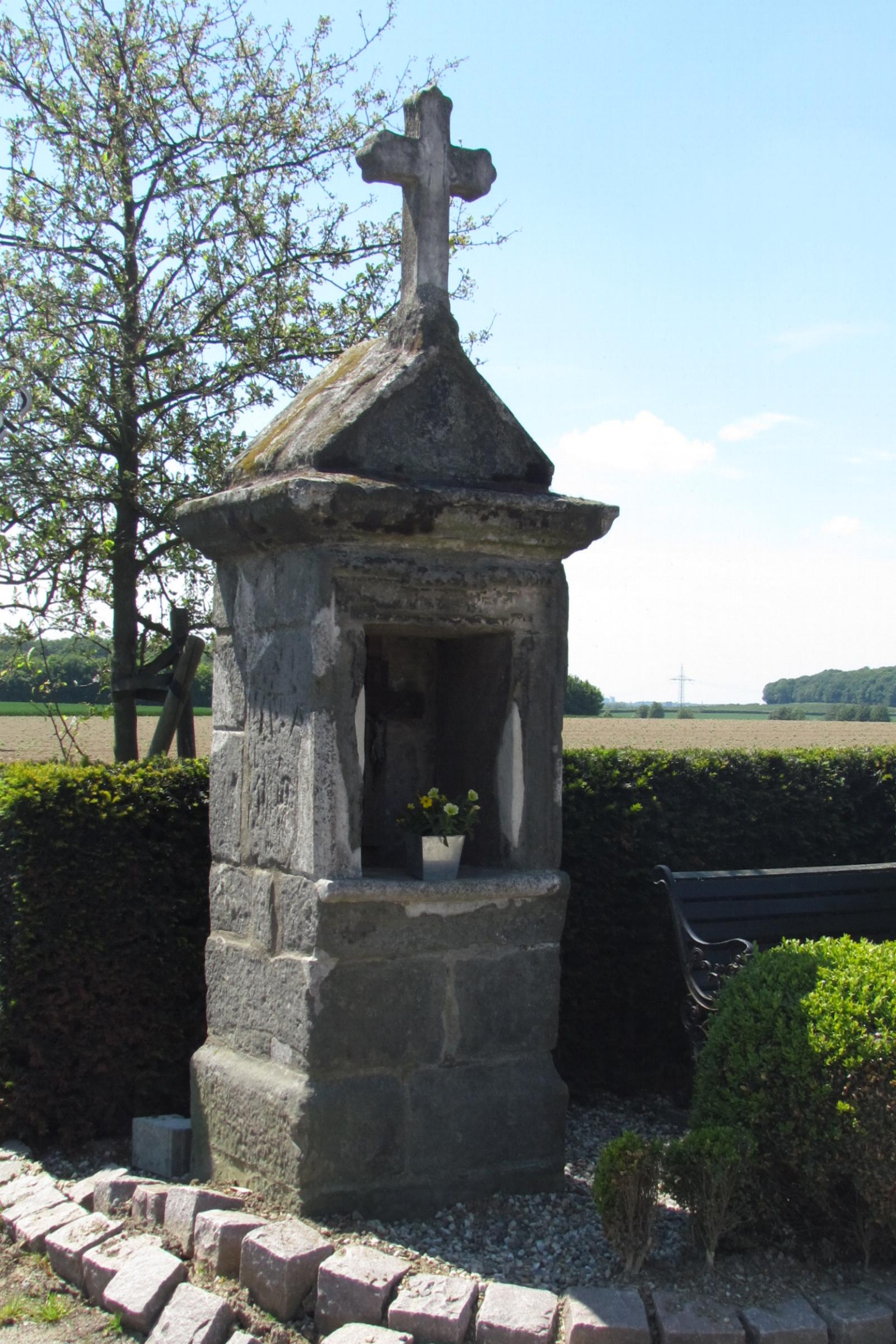 This is a photograph of an architectural monument.It is on the list of cultural monuments of Korschenbroich